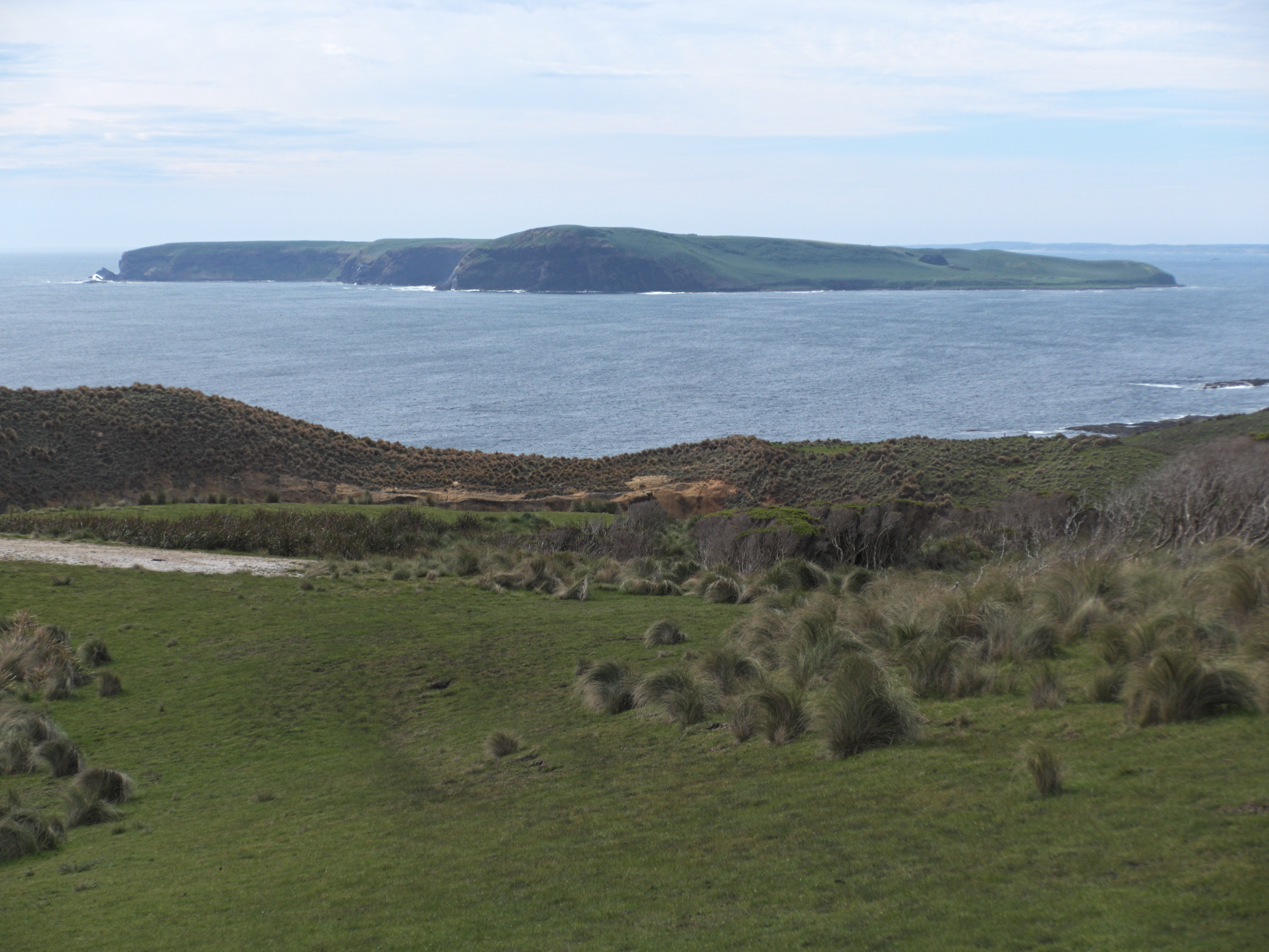 Cape Grim with Trefoil Island in the background.